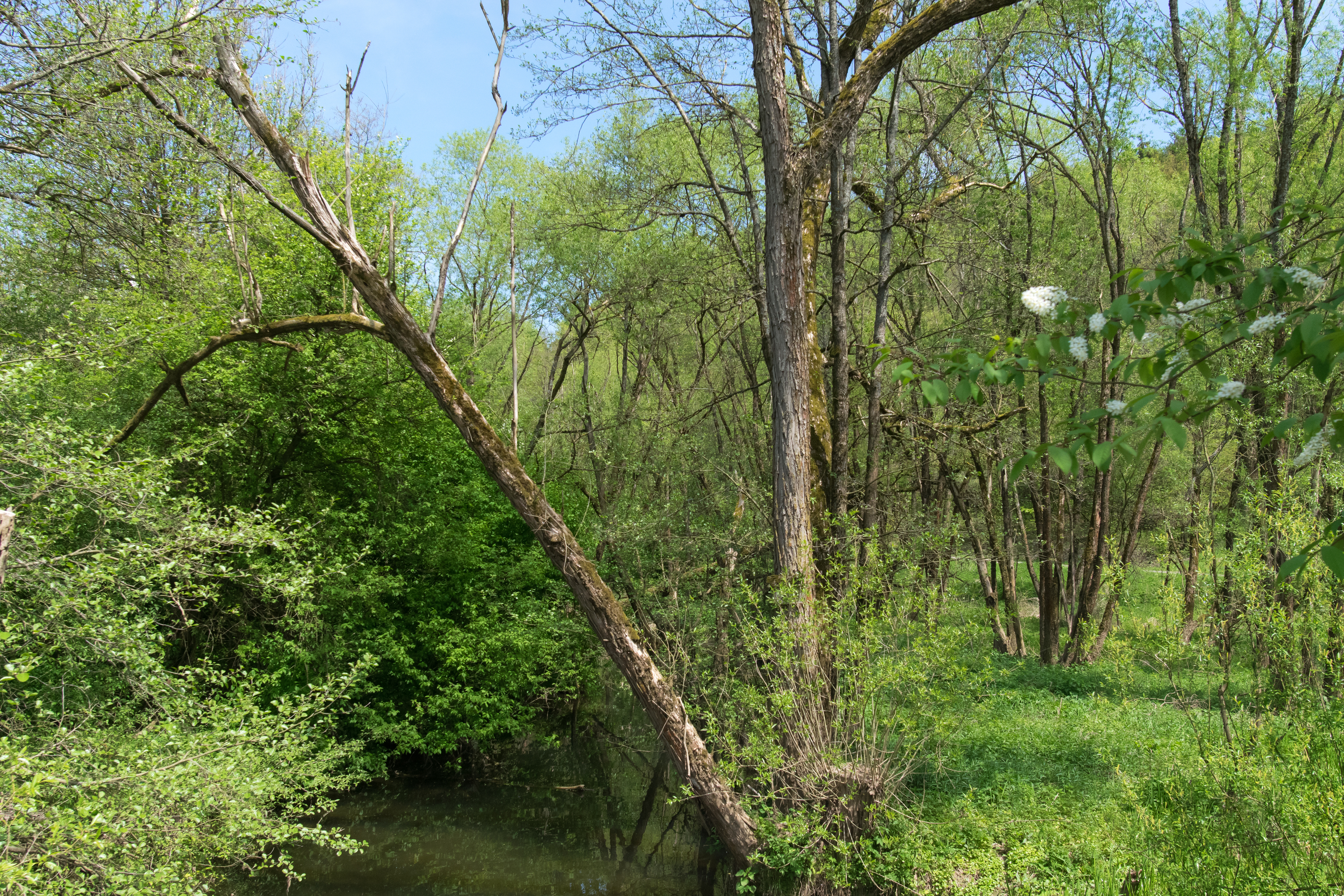 Naturschutzgebiet Effeldertal, angrenzend an den Froschgrundsee